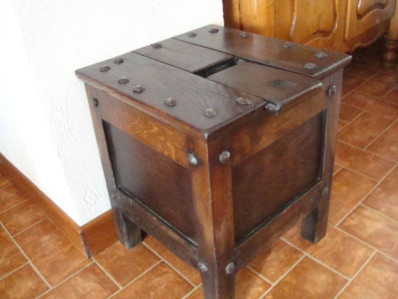 Old "salt chair". It was used in France to hide salt from the eyes of the tax controllers. See Chaise à sel